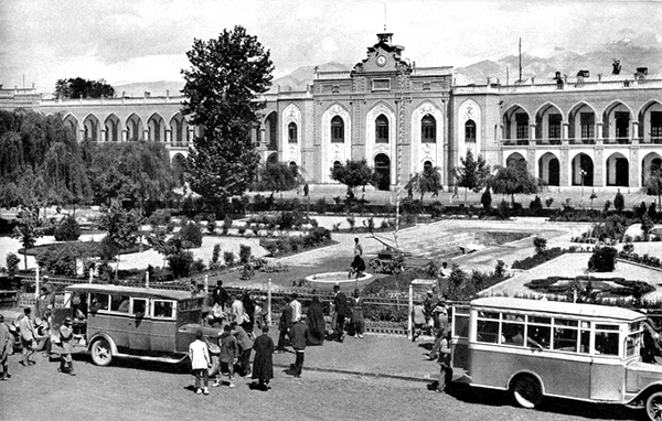 نمایی از تهران قدیم